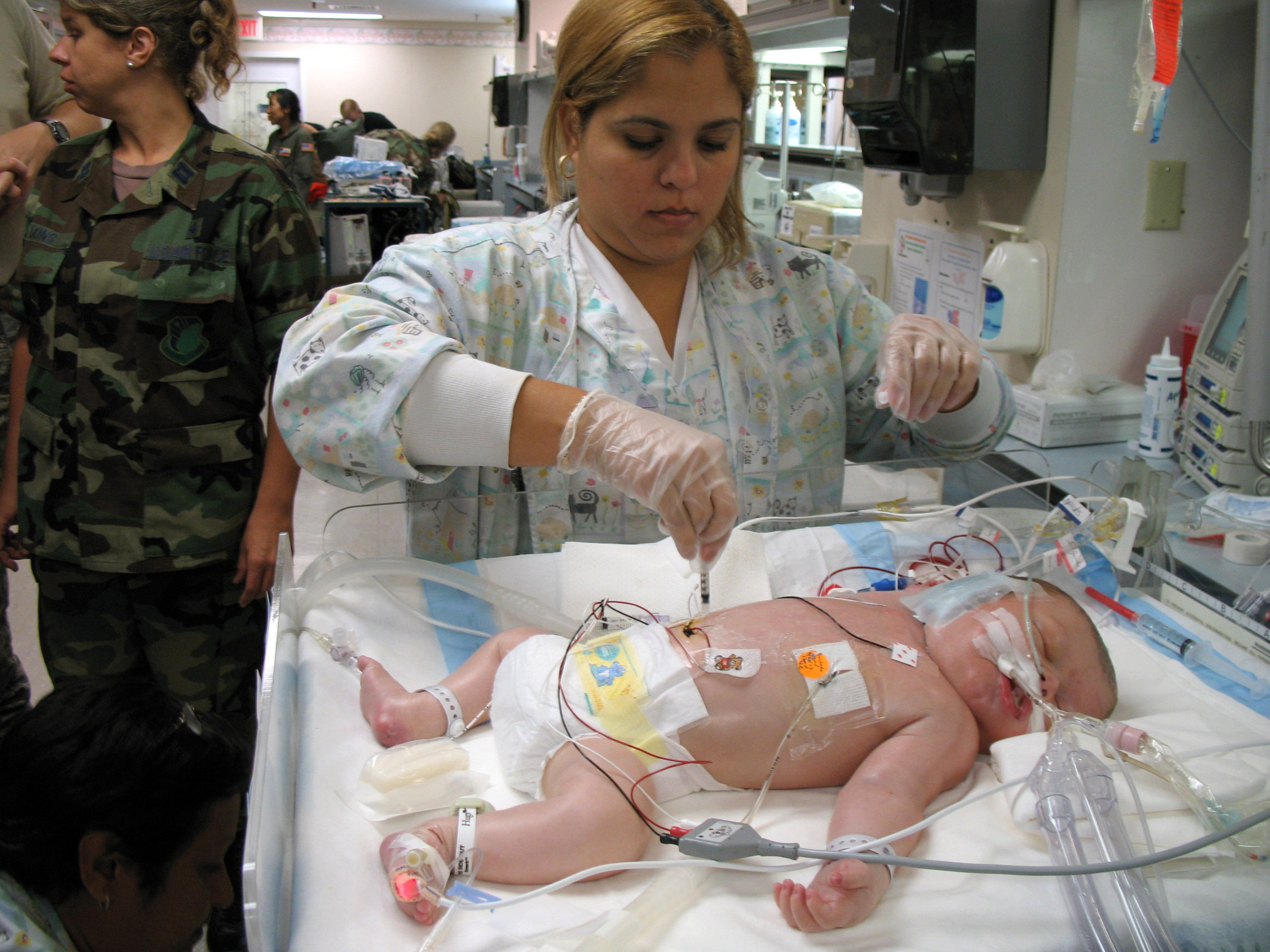 Respiratory therapist Michelle Sirra takes a blood sample from a 3-day-old patient in preparation for transfer to an Extracorporeal Membrane Oxygenation unit on Friday, July 21, in San Juan, Puerto Rico. An ECMO team comprised Air Force and Army medical specialists from the Wilford Hall Medical Center at Lackland Air Force Base, Texas, flew to Puerto Rico to transport Stuart to San Antonio for more advanced care. Ms. Sirra is a respiratory therapist in the neonatal intensive care unit at the Hospital Auxilio Mutuo in San Juan. (U.S. Air Force photo/Staff Sgt. Matthew Rosine)